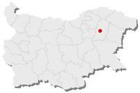 Map of Bulgaria, the red point is the position of Shumen.